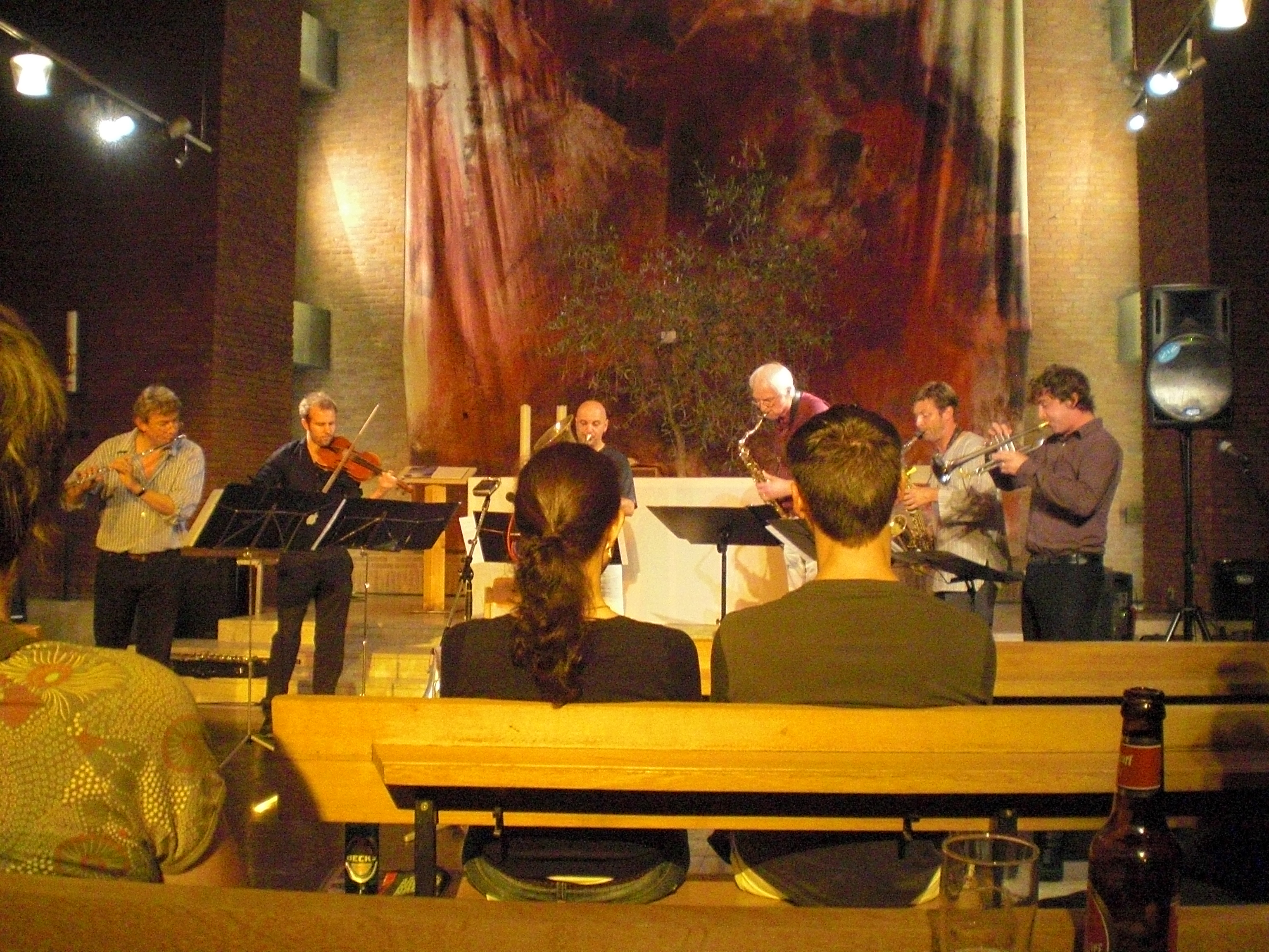 Pata Cadillac in concert at Kölner Musiknacht, Cologne, Germany, September 10th, 2011, from left to right: Michael Heupel, Axel Lindner, Nicolao Valiensi, Norbert Stein, Georg Wissel, Ryan Carniaux